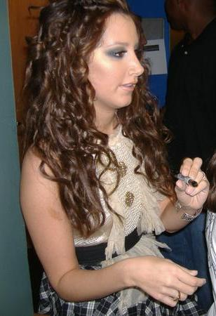 Ash co-hosting Q100 Jingle Ball 2008.